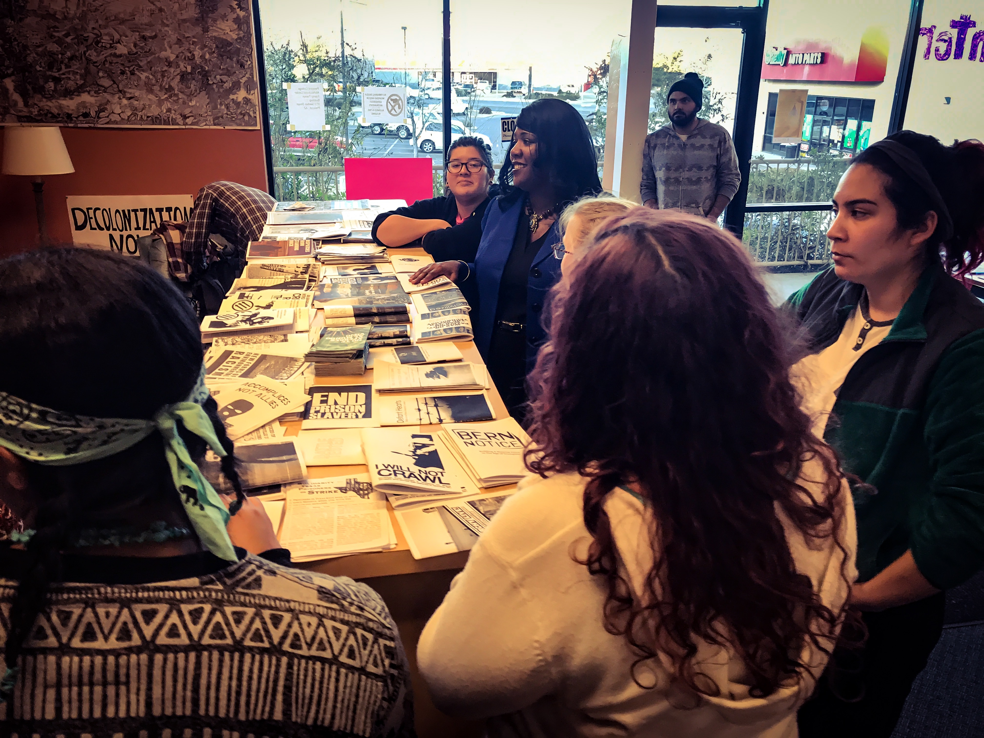 Students speaking with Flagstaff Mayor Coral Evans at a Call to Action Month Event hosted by the Black Student Union